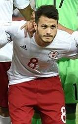 This is Georgian's foto